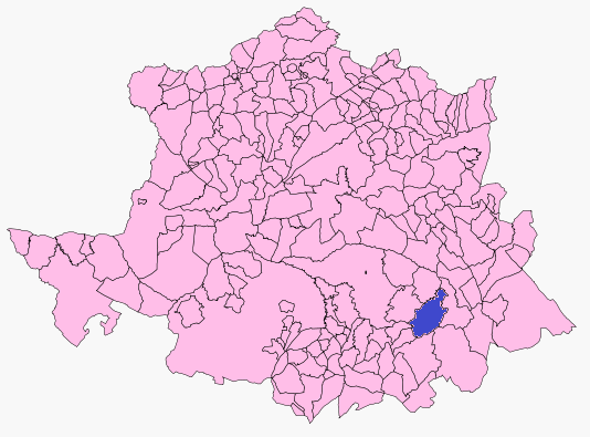 Garciaz